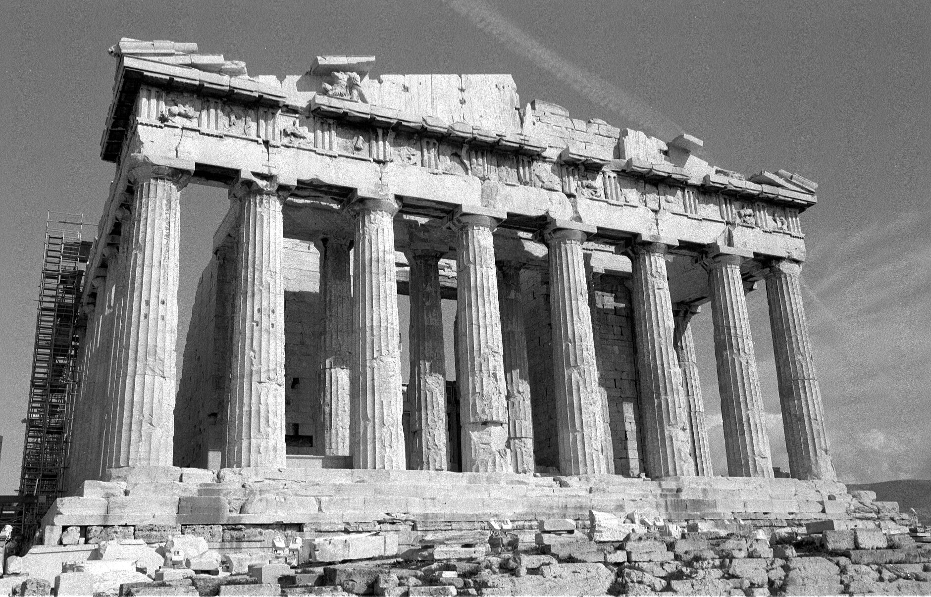 Parthenon temple on the Acropolis of Athens«Ακρόπολη Αθηνών»